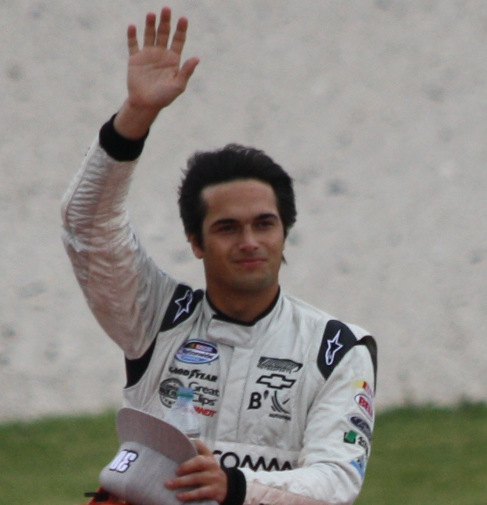 NASCAR driver Nelson Piquet, Jr. during driver's introductions at the 2012 Sargento 200 Nationwide Series race at Road America. He was the fastest qualifier and later won the race becoming the first Brazilian to win a NASCAR touring series event.